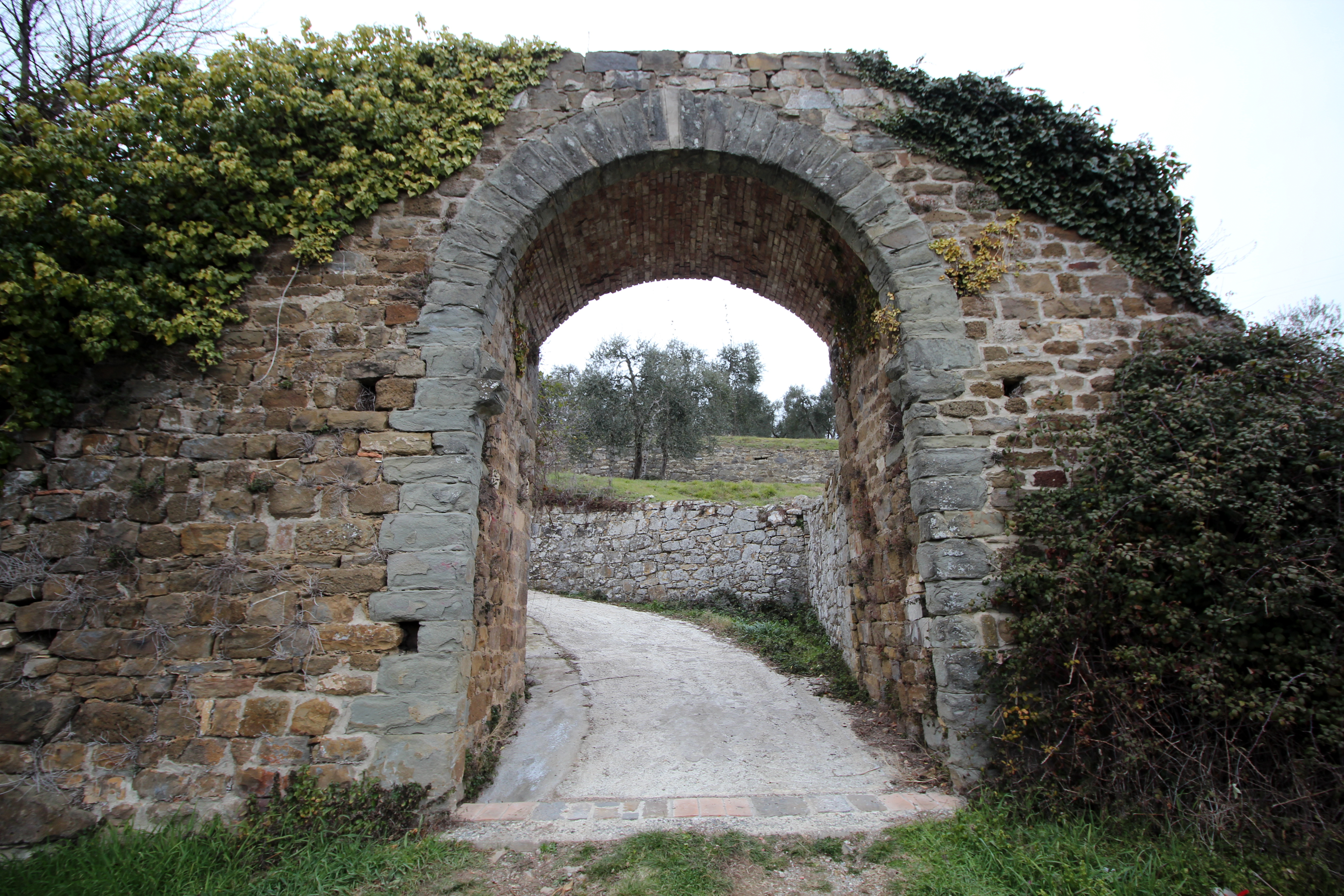 Porta Gattoli (from outside), City Gate in Montalcino, Province of Siena, Tuscany, Italy